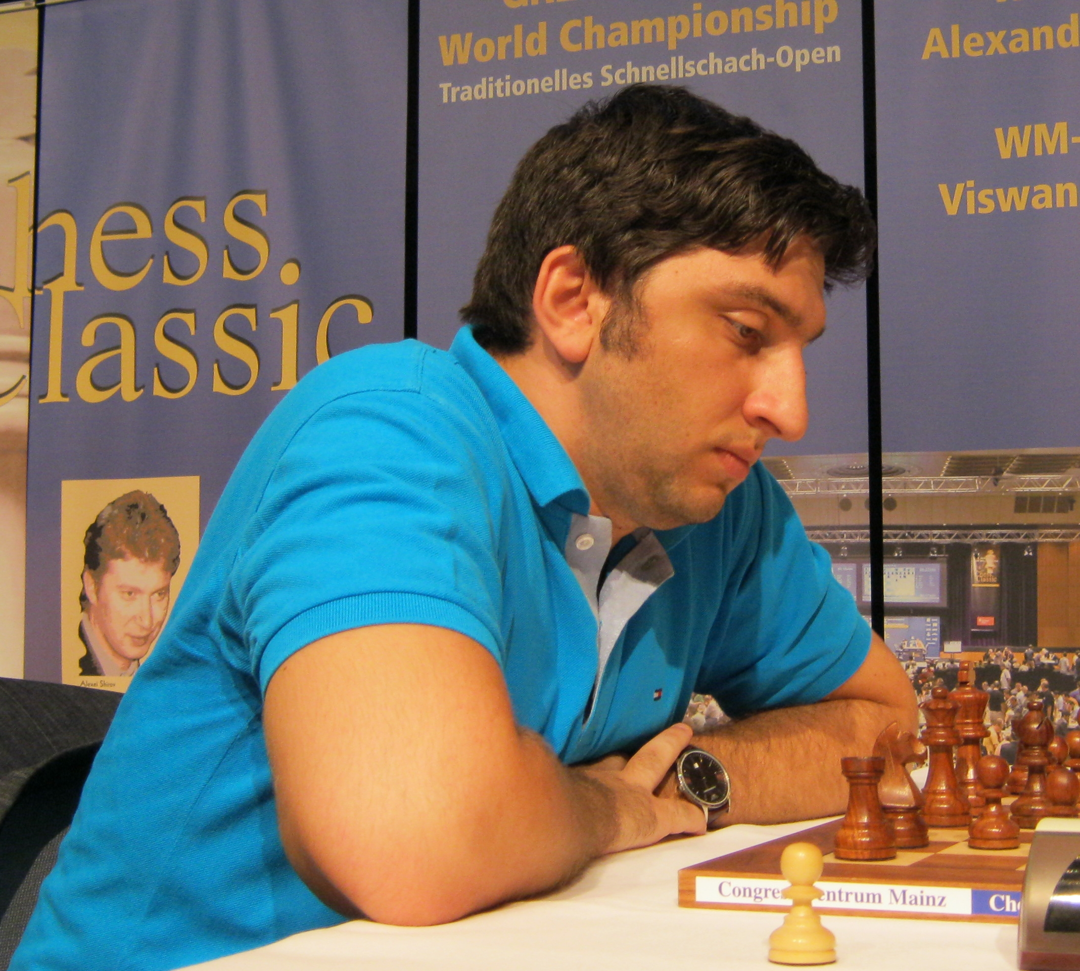 Vugar Gashimov, chess grandmaster